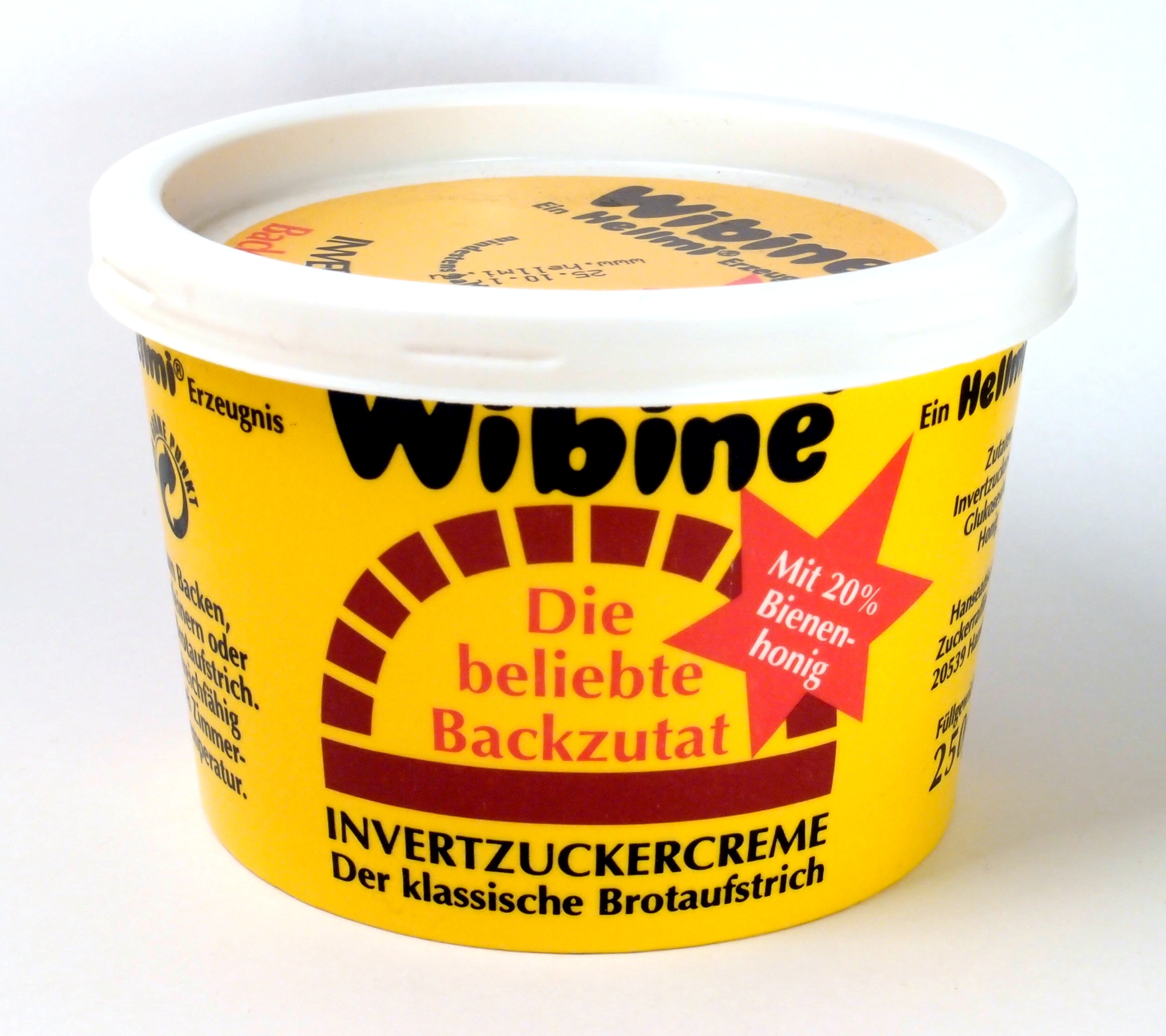 A package of “invert sugar cream” (German: Invertzuckercreme), a creamy, honey-flavoured variety of inverted saccharose made as an artificial replacement for honey as a spread or for baking. This used to be legally called “artificial honey” (Kunsthonig) in the Federal Republic of Germany until 1979, when the current designation was introduced. This picture is mainly intended to show how this sort of product is labelled in Germany nowadays, in accordance with standard industry practices. The specimen in the picture contains 20 per cent real honey, as is indicated on the package, inside the red star. Non German speaking readers may be interested to learn that the brand name “Wibine” sounds precisely like the German expression “wie Biene,” meaning “like bee.”